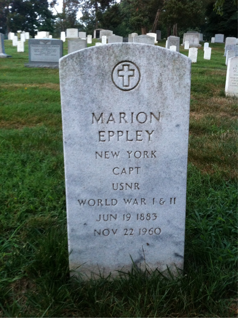 Grave of Marion Eppley at Arlington National Cemetery